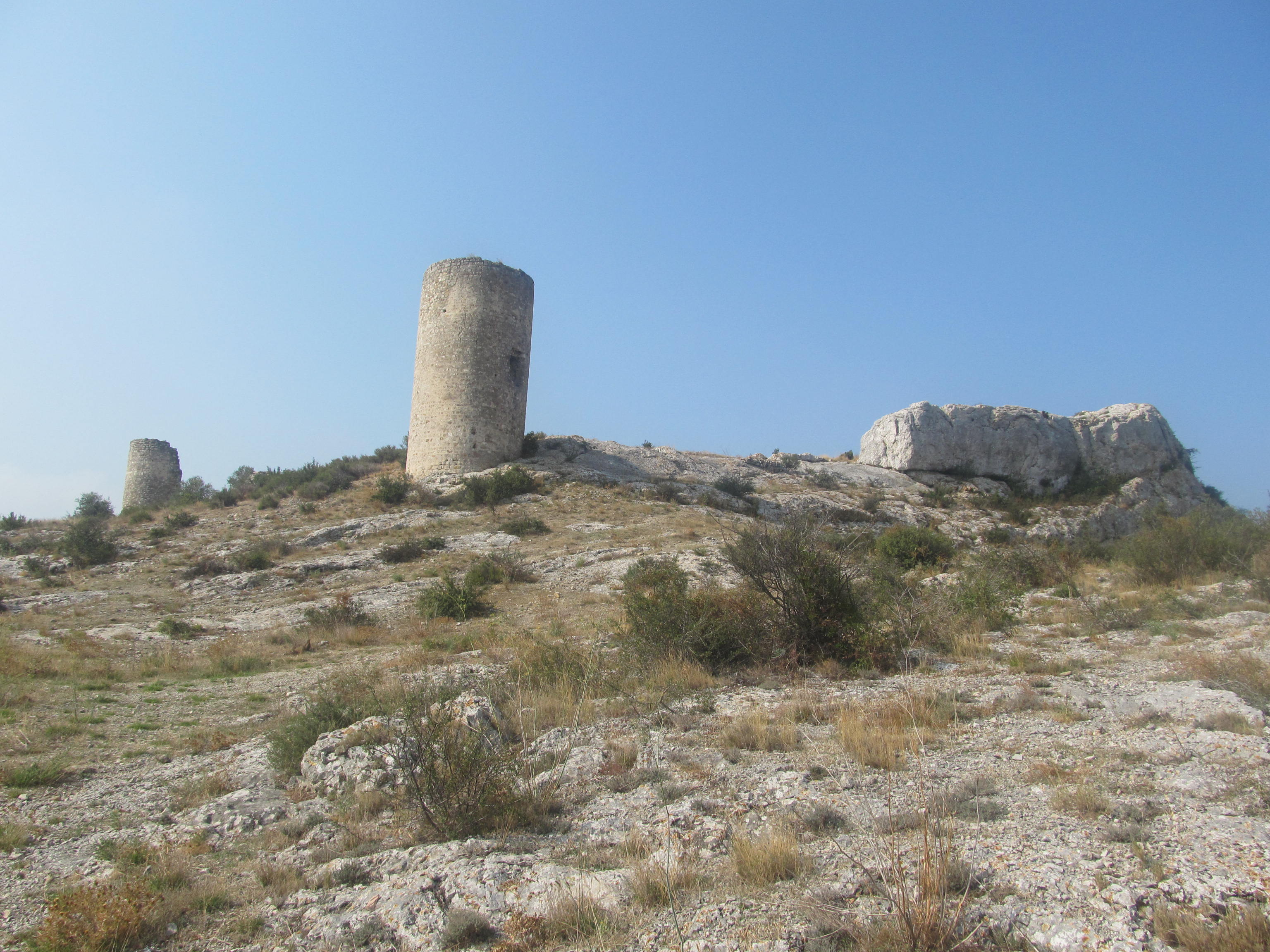 Tours de Castillon Towers